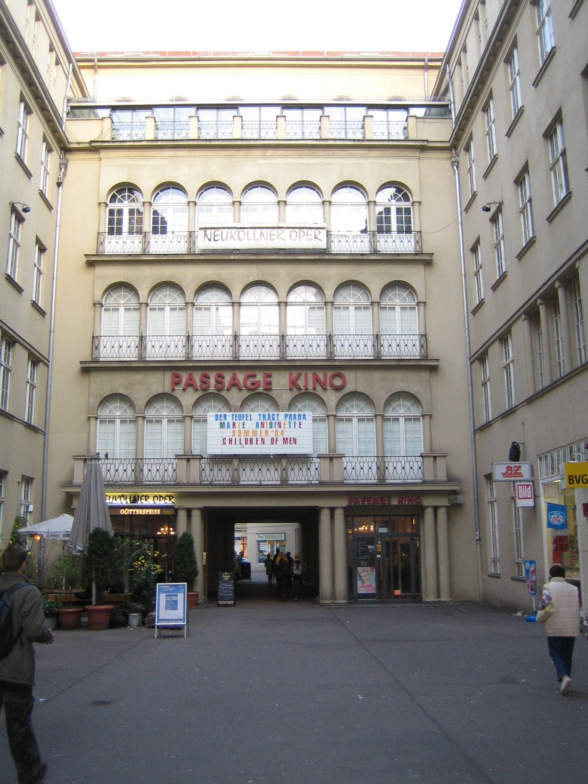 Neuköllner Oper / Passage Kino in the Karl-Marx-Street.